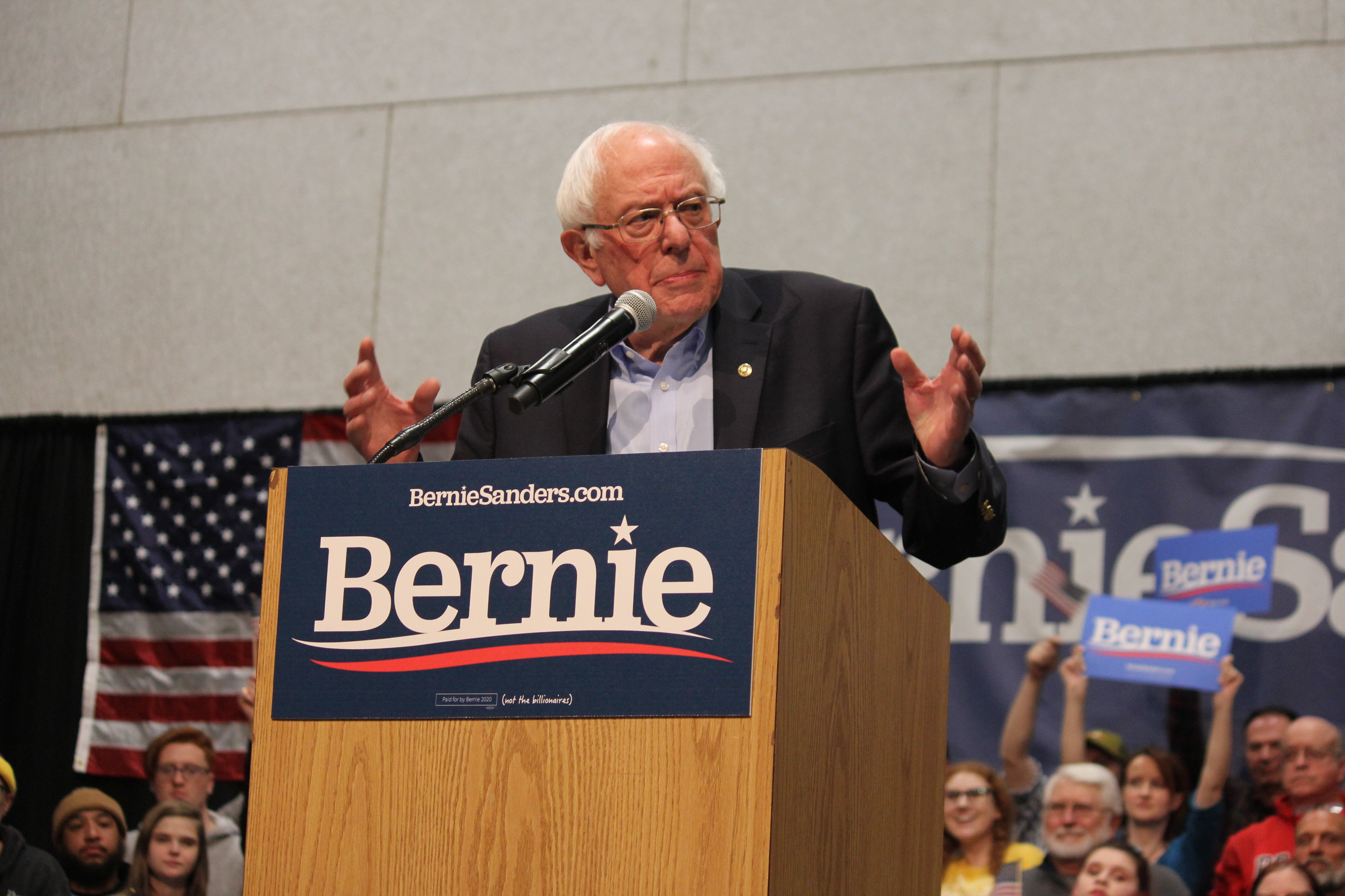 Sen. Bernie Sanders (I-VT) speaks to supporters at a rally at the Mid-America Center in Council Bluffs, Iowa. J. is used elsewhere.